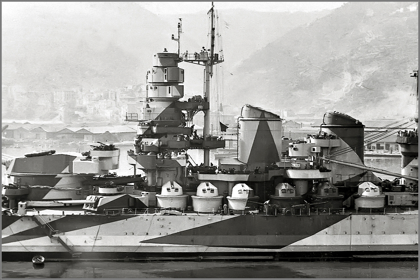 «Vittorio Veneto» battleship